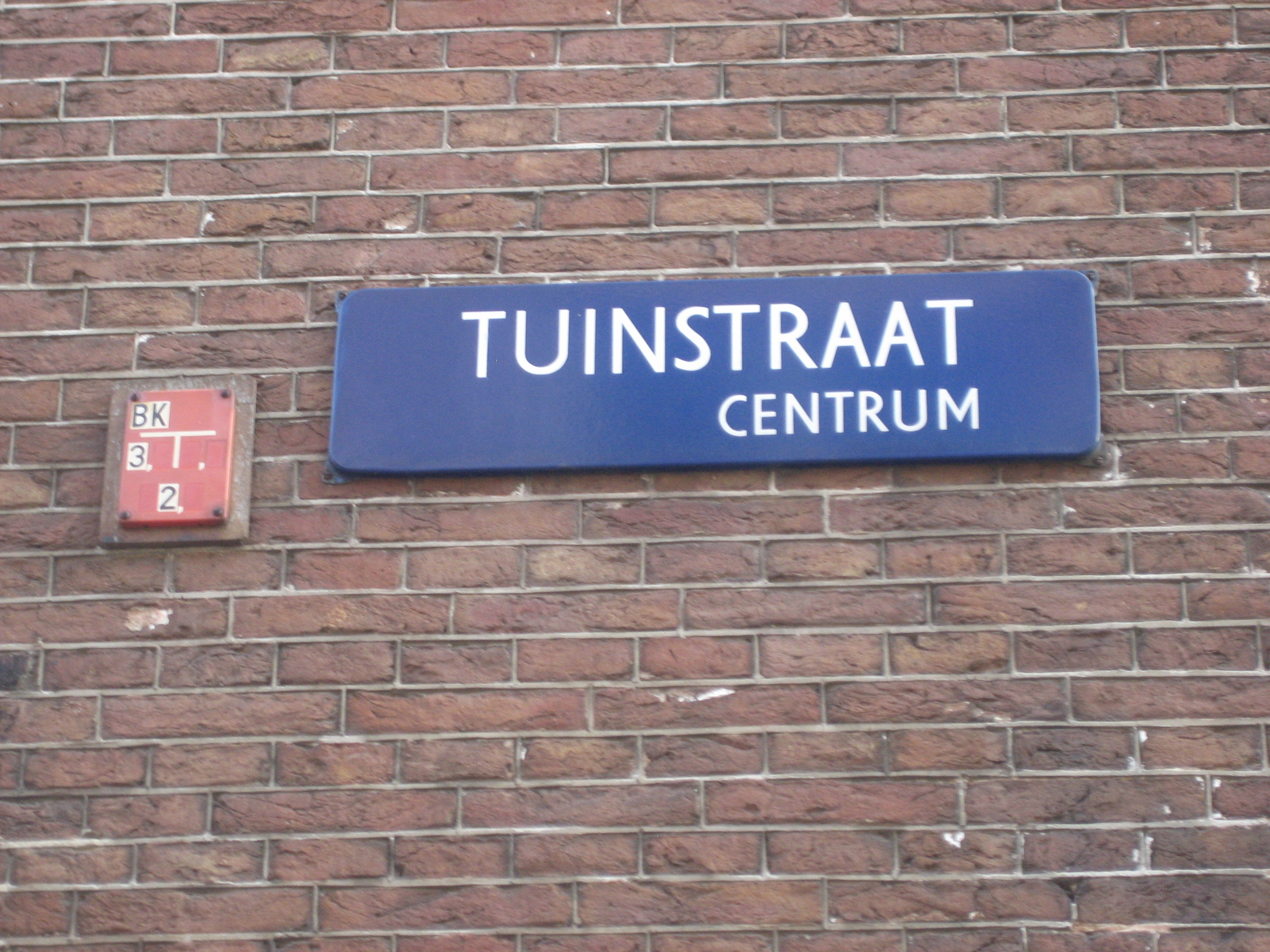 straatnaambordje